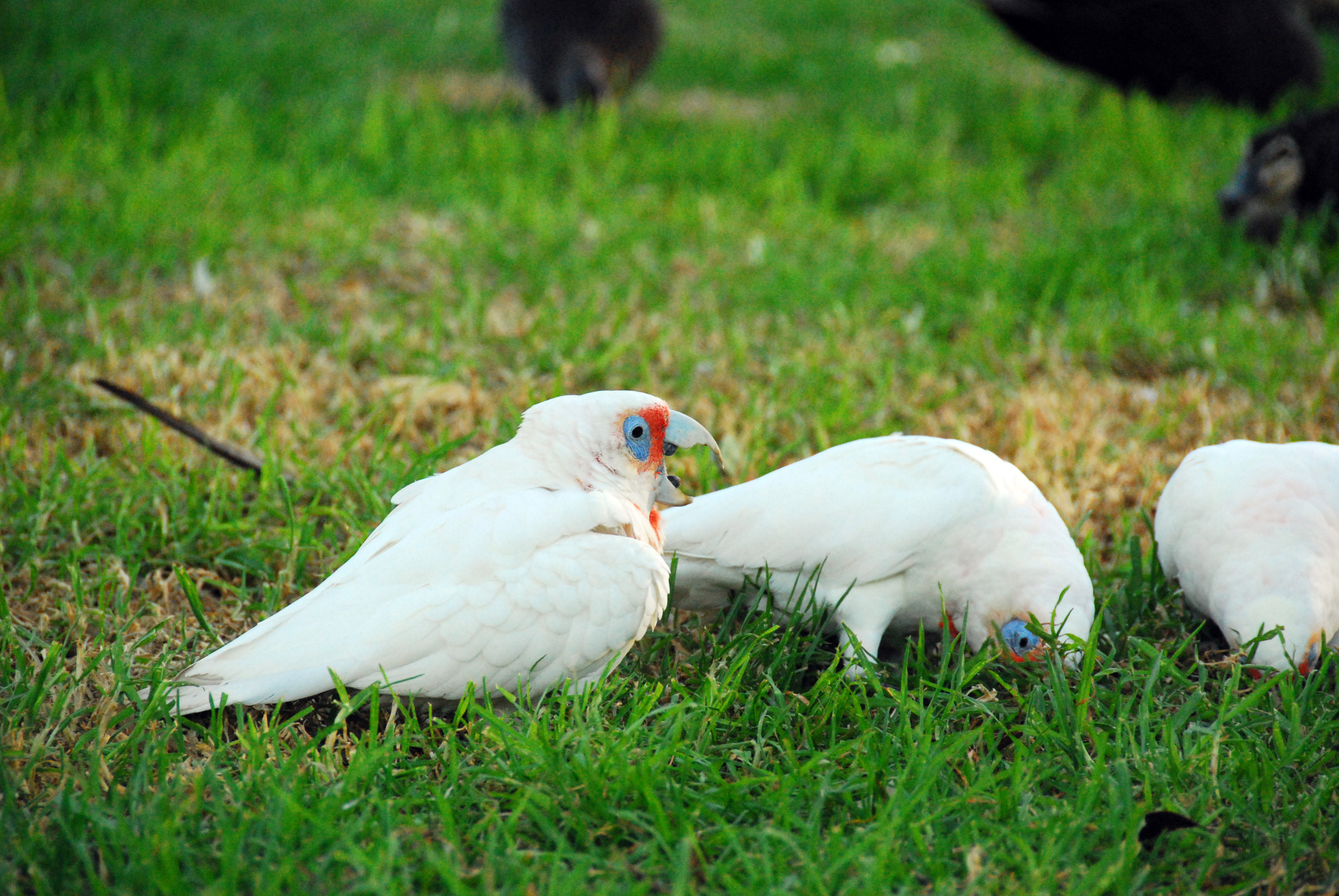 Feral Long-billed Corellas (also known as Slender-billed Corella) on short grass at Joondalup Bird Park, Western Australia. The two parrots on the left is using their beaks to dig for food.